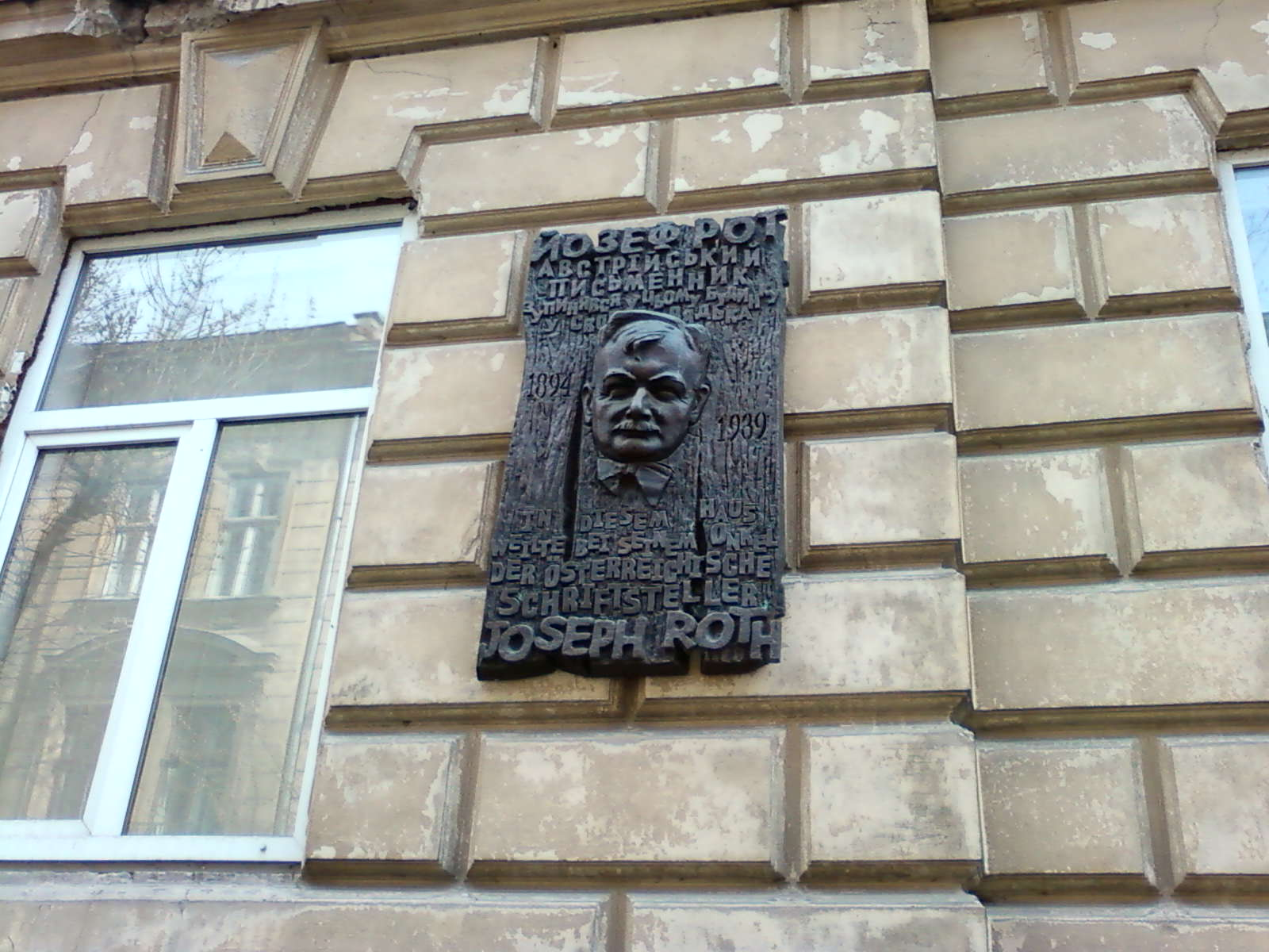 Plaque of Austrian writer Joseph Roth in Lviv.